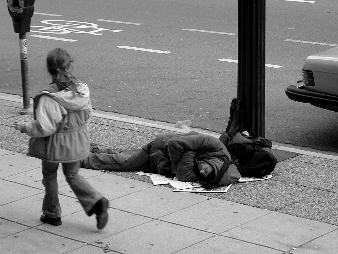 Homeless man resting on sidewalk. Vancouver, Canada.